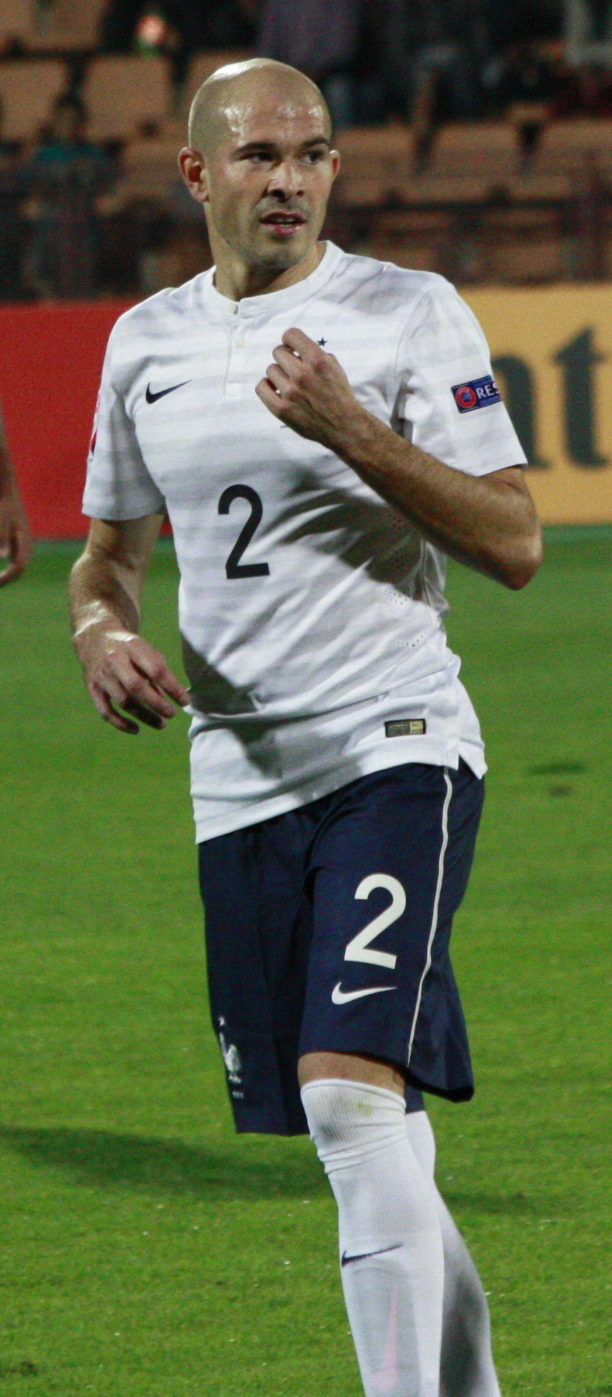 Christophe Jallet - France v Armenia